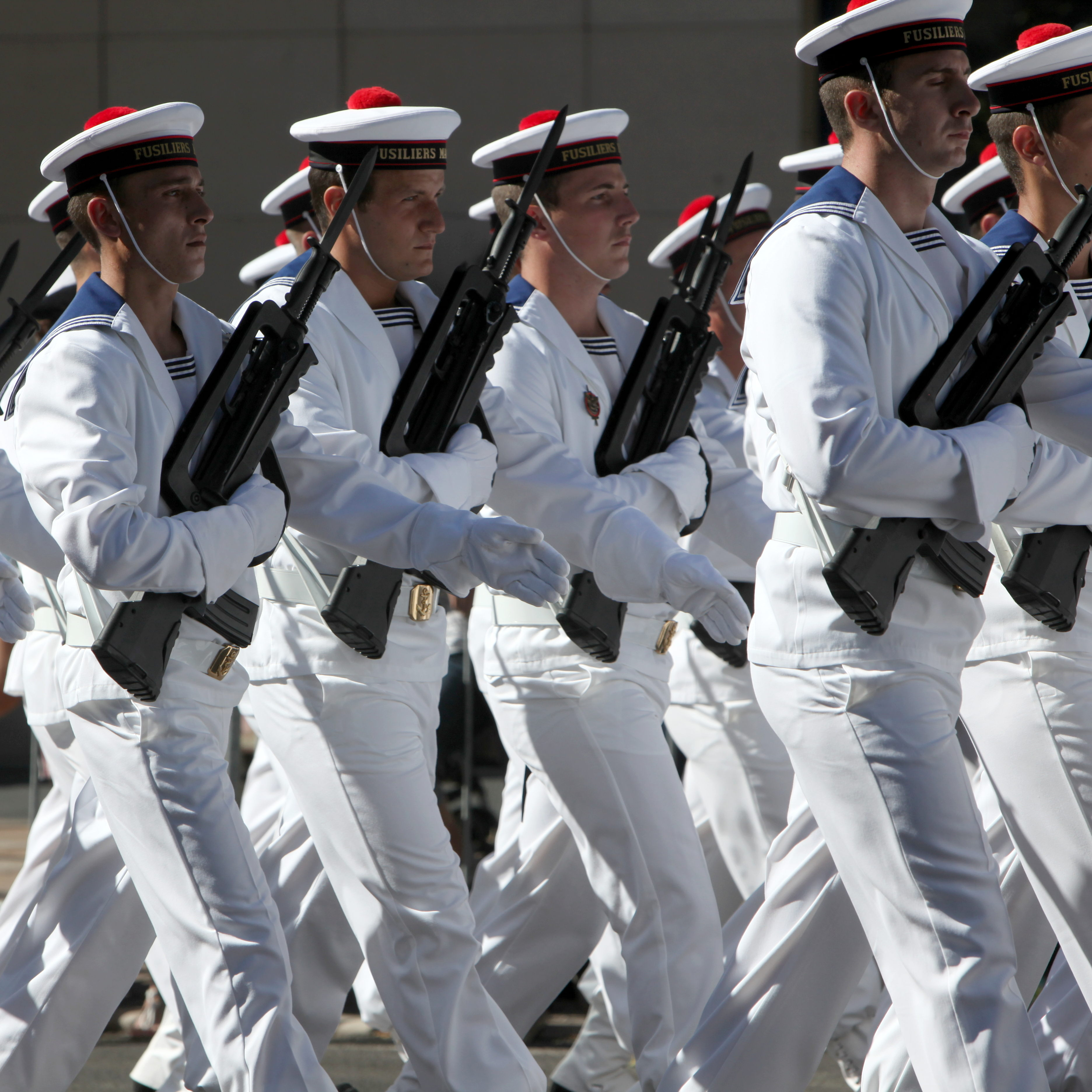 Elements of the Groupement de Fusiliers Marins de Toulon parading during the celebrations of the 14th of July in Toulon